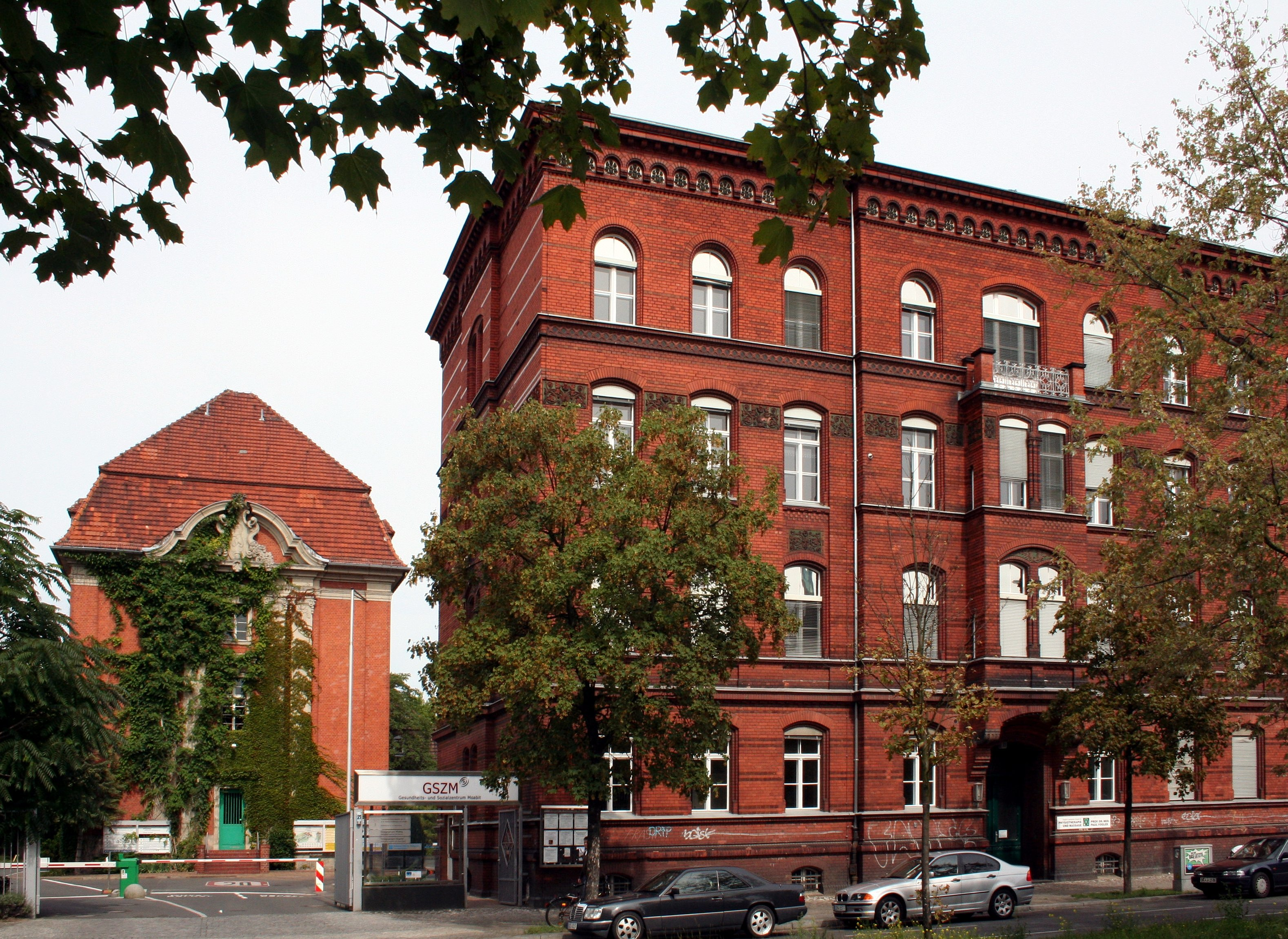 The main entrance to the former hospital in Berlin-Moabit known as "Städtisches Krankenhaus Moabit".